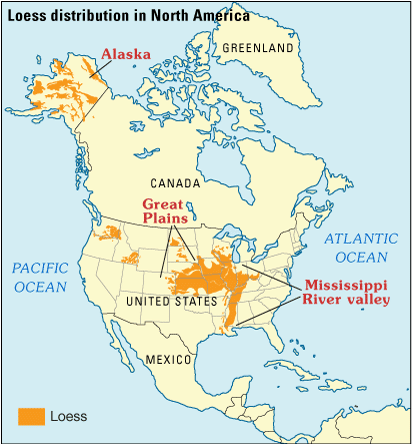 Map showing the distribution of loess (orange) in North America.